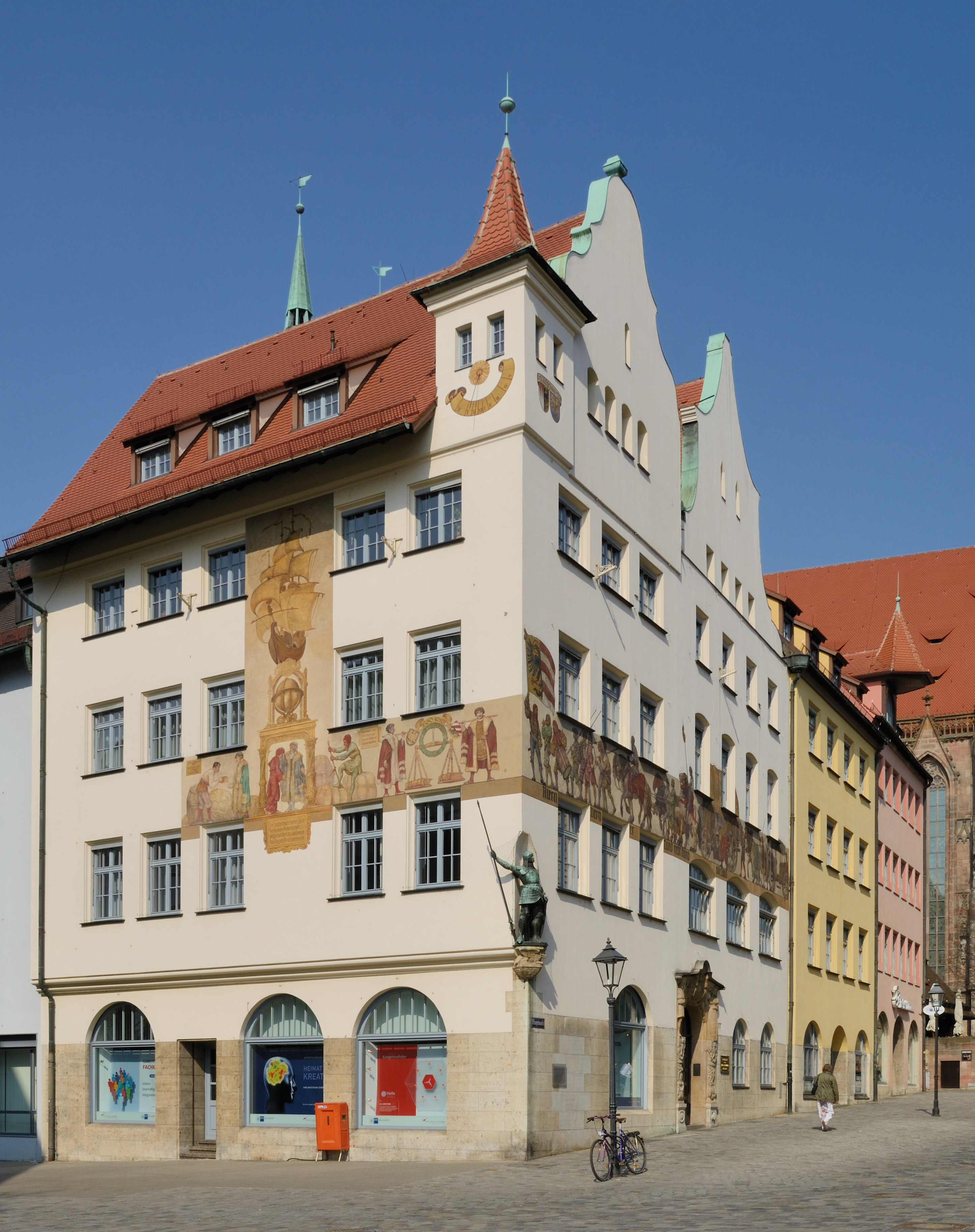 Nueremberg:Chambers of commerce building